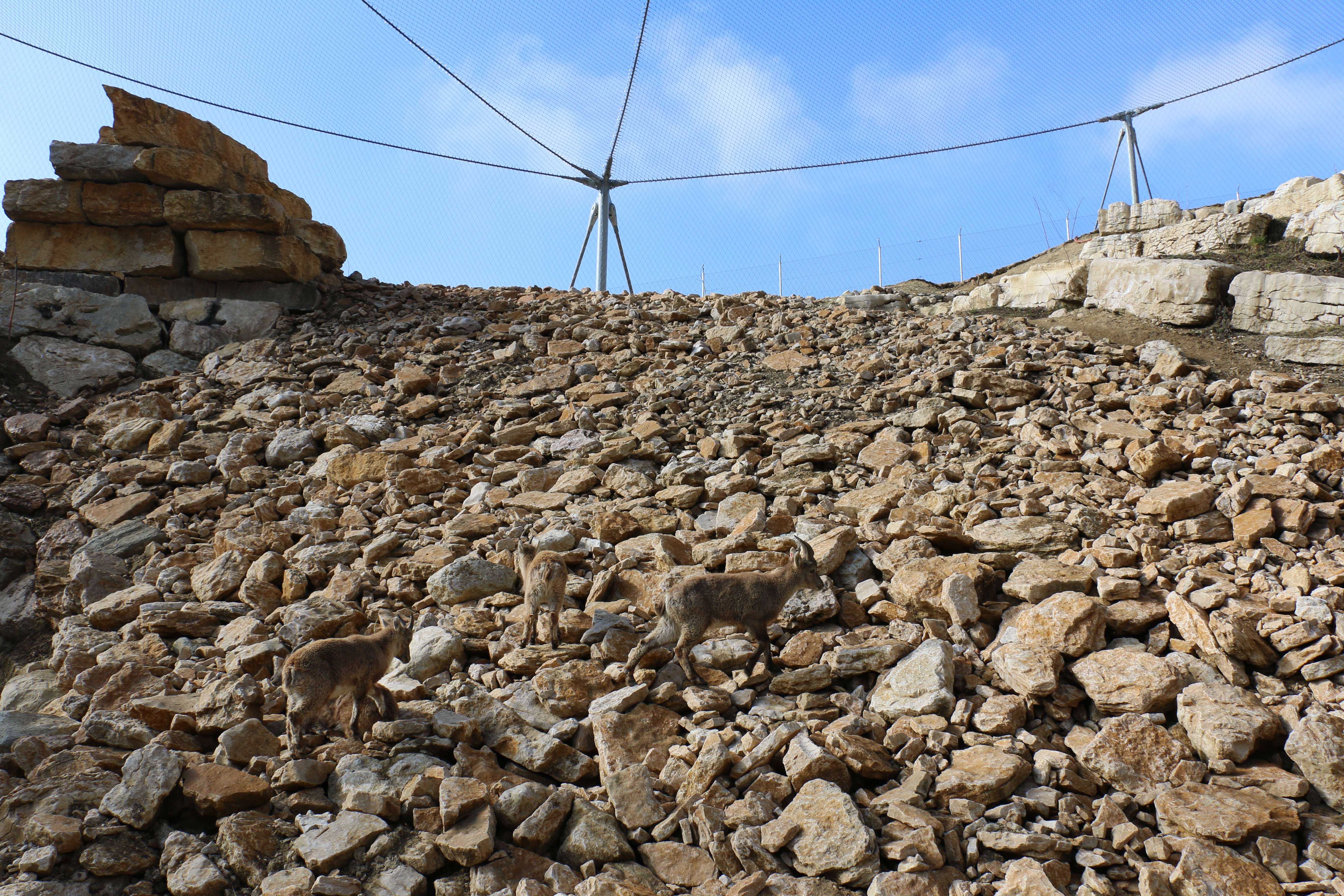 Zoo la Garenne